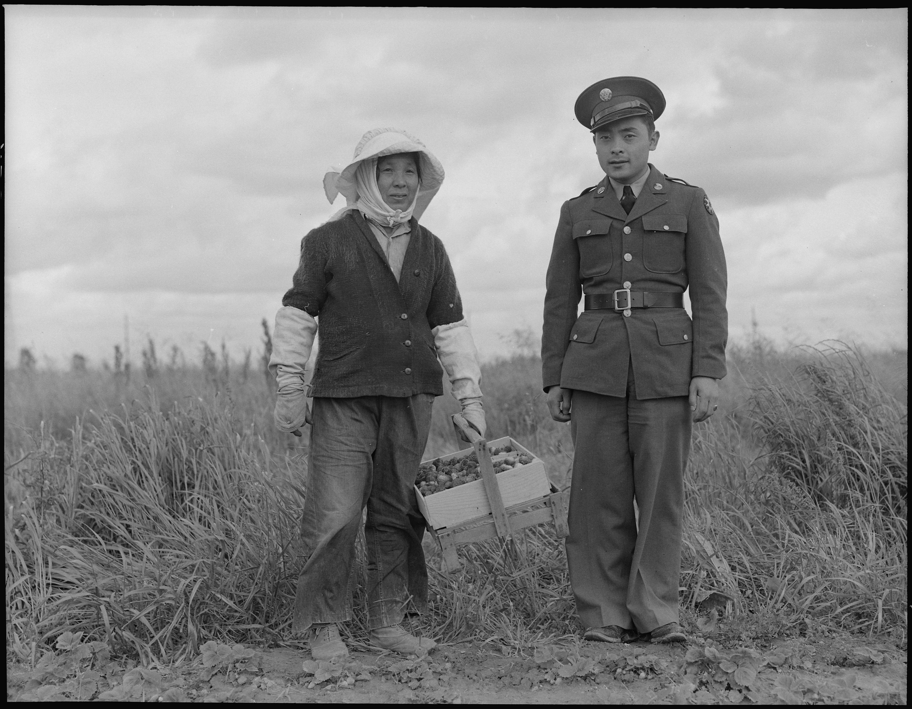 Scope and content: The full caption for this photograph reads: Florin, Sacramento County, California. A soldier and his mother in a strawberry field. The soldier, age 23, volunteered July 10, 1941, and is stationed at Camp Leonard Wood, Missouri. He was furloughed to help his mother and family prepare for their evacuation. He is the youngest of six years children, two of them volunteers in United States Army. The mother, age 53, came from Japan 37 years ago. Her husband died 21 years ago, leaving her to raise six children. She worked in a strawbery basket factory until last year when her her children leased three acres of strawberries "so she wouldn't have to work for somebody else". The family is Buddhist. This is her youngest son. Her second son is in the army stationed at Fort Bliss. 453 families are to be evacuated from this area.